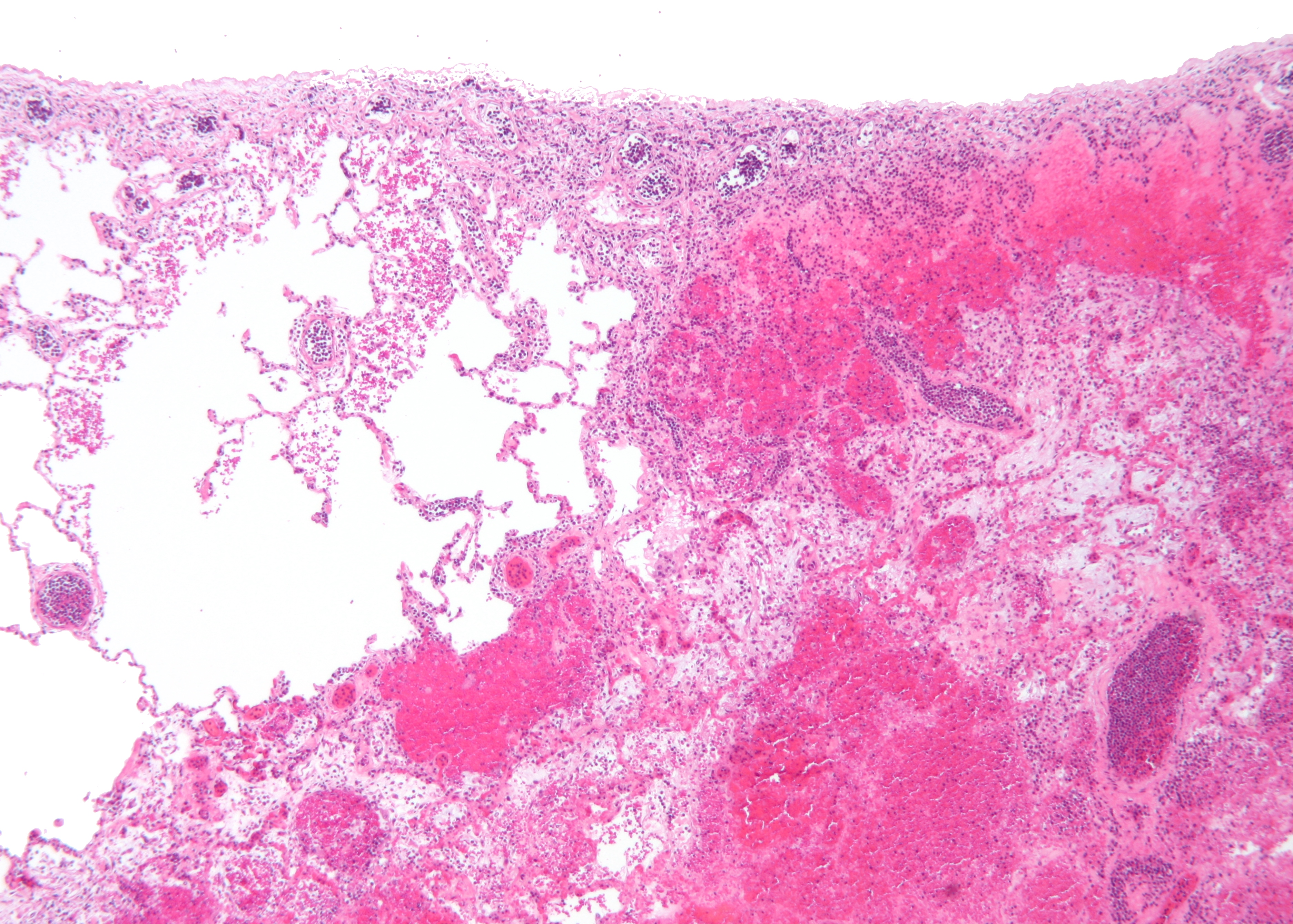 Micrograph of a pulmonary infarct. Autopsy specimen. H&E stain.